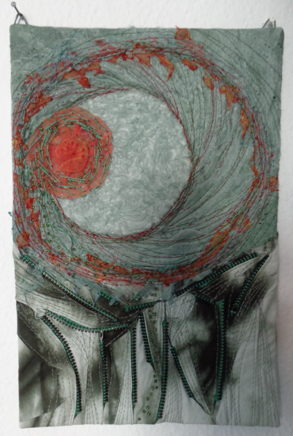 patchwork red and grey with zippers Private collection